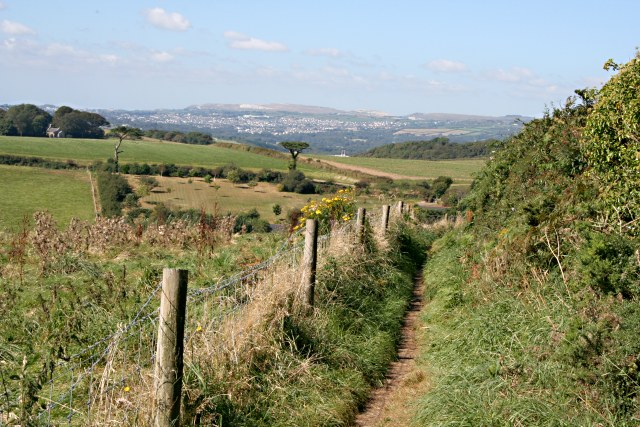 On the Saints Way This is the western branch of the Saints Way footpath. Here there are views out to St Austell and the hills behind.